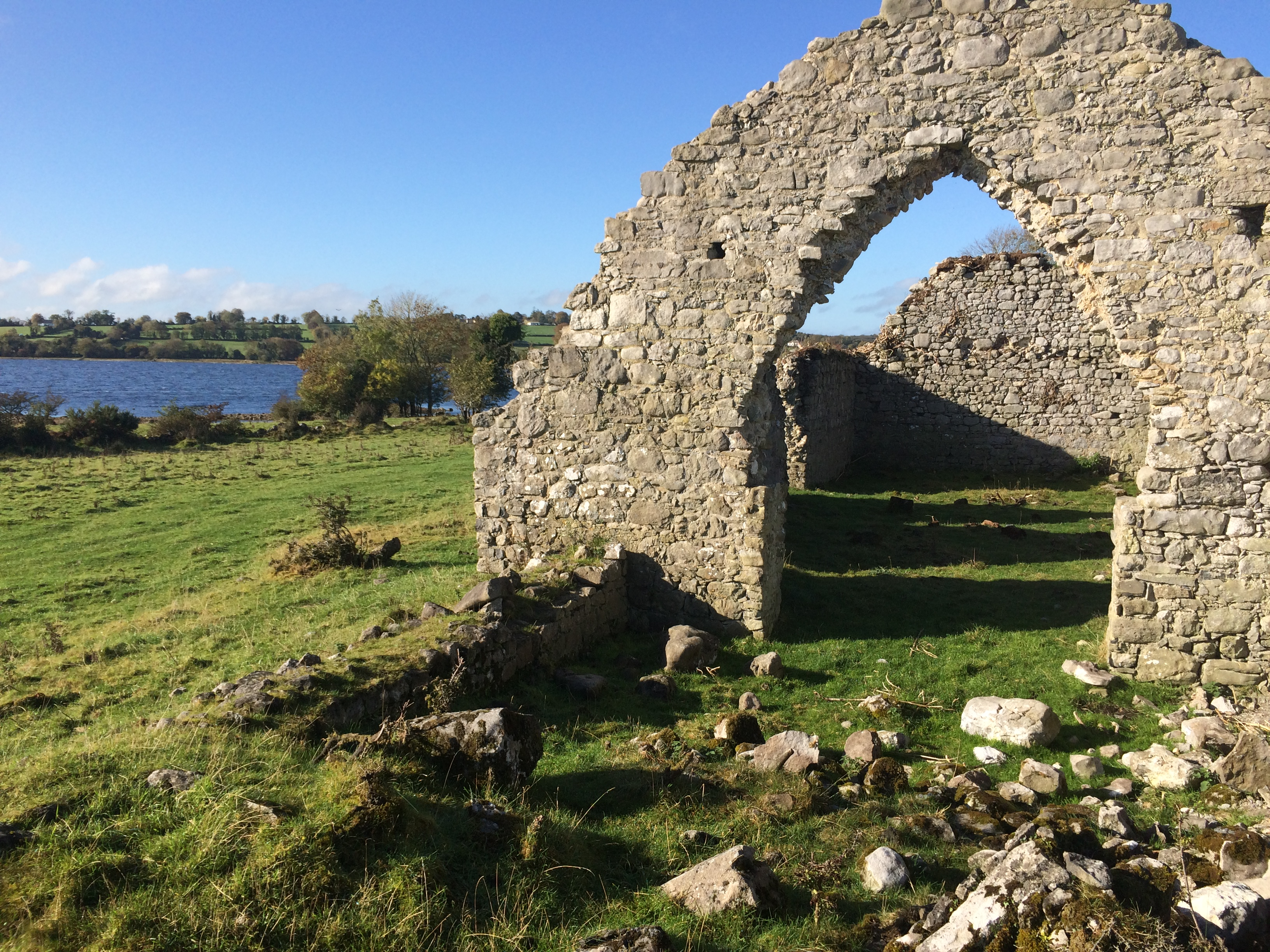 Rindoon 28-10-2015 6